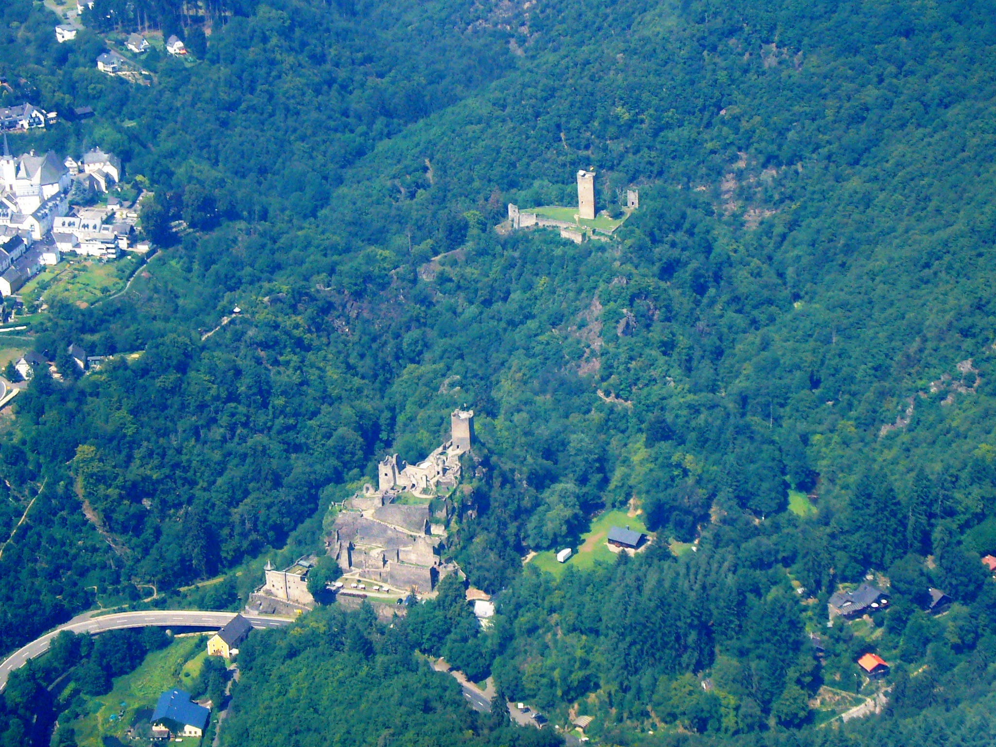 The Oberburg and the Niederburg in Manderscheid, Eifel